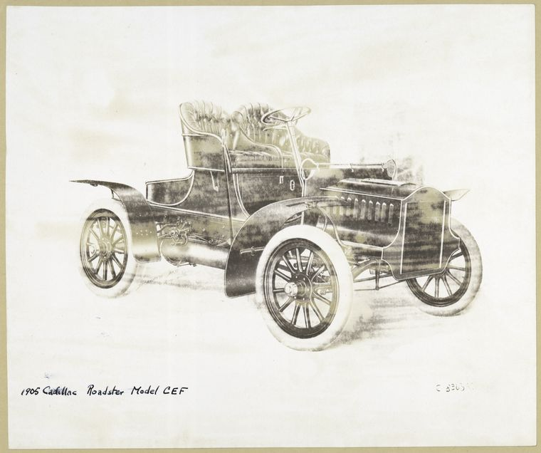 Cadillac 1905 Model E Runabout Note: Cadillac did not have "Model CEF" as identified on the front of the photo. Digital ID: 481996 Source: Photographs of General Motors and Chrysler car and truck models, 1902 - 1938. / 1902-1938. Cadillac - Chrysler - De Soto - Dodge - LaSalle - Plymouth. Photographs - Specifications. (more info) Repository: The New York Public Library. Science, Industry and Business Library. General Collection Division. See more information about this image and others at NYPL Digital Gallery. Persistent URL: Rights Info: No known copyright restrictions; may be subject to third party rights (for more information, click here)